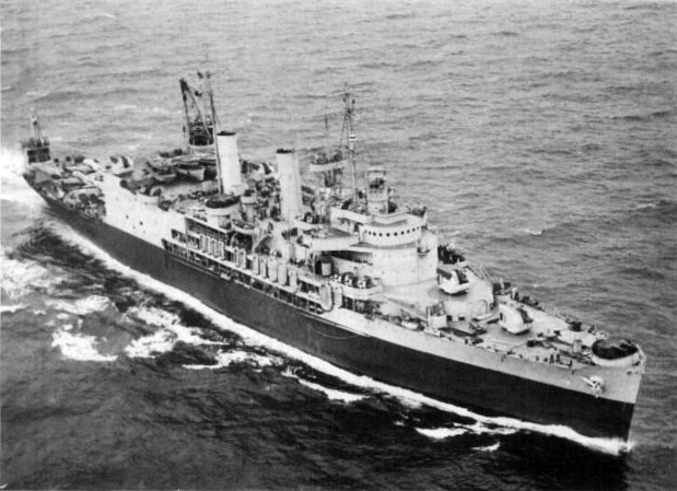 The U.S. Navy seaplane tender USS Albemarle (AV-5) underway on 30 July 1943, wearing Camouflage Measure 22.